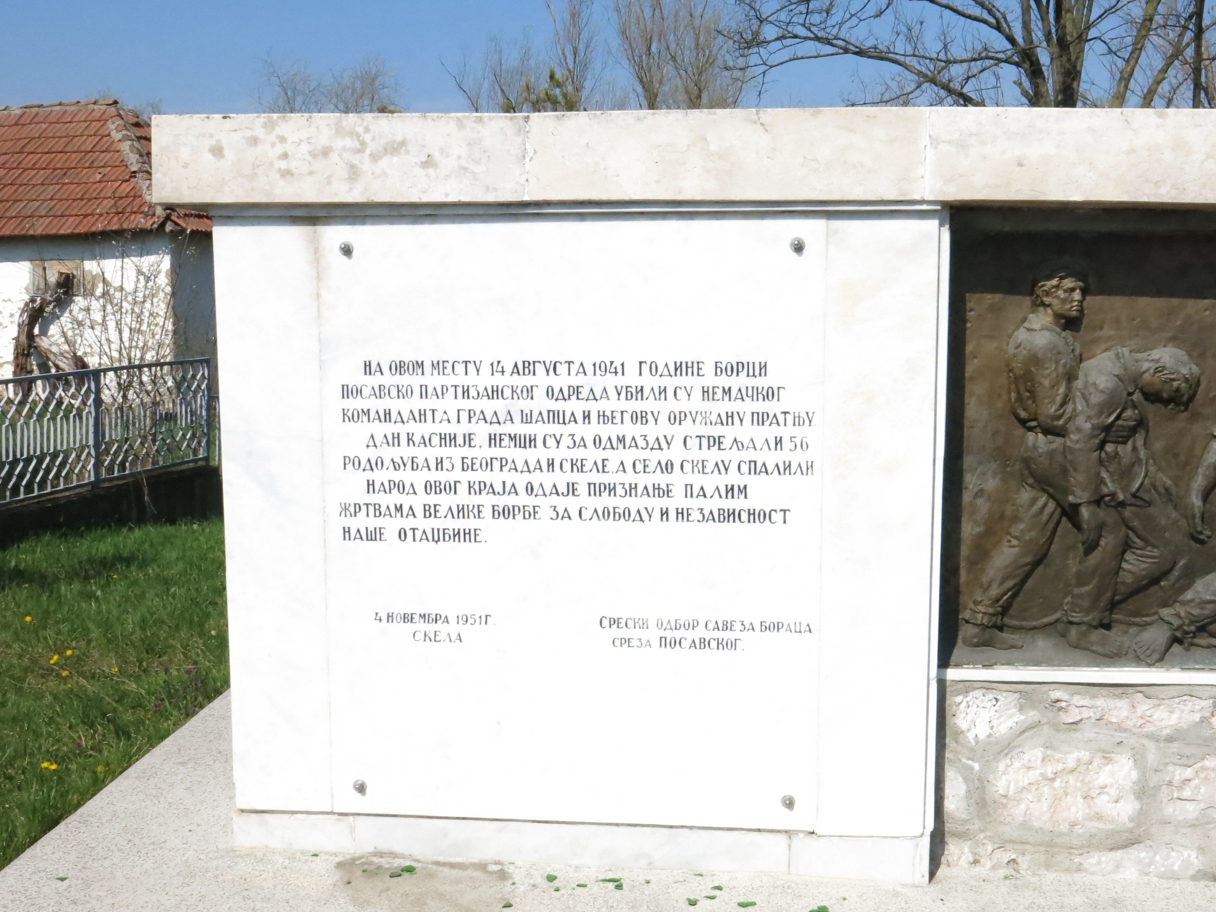 Skela, Monument to the executed hostages